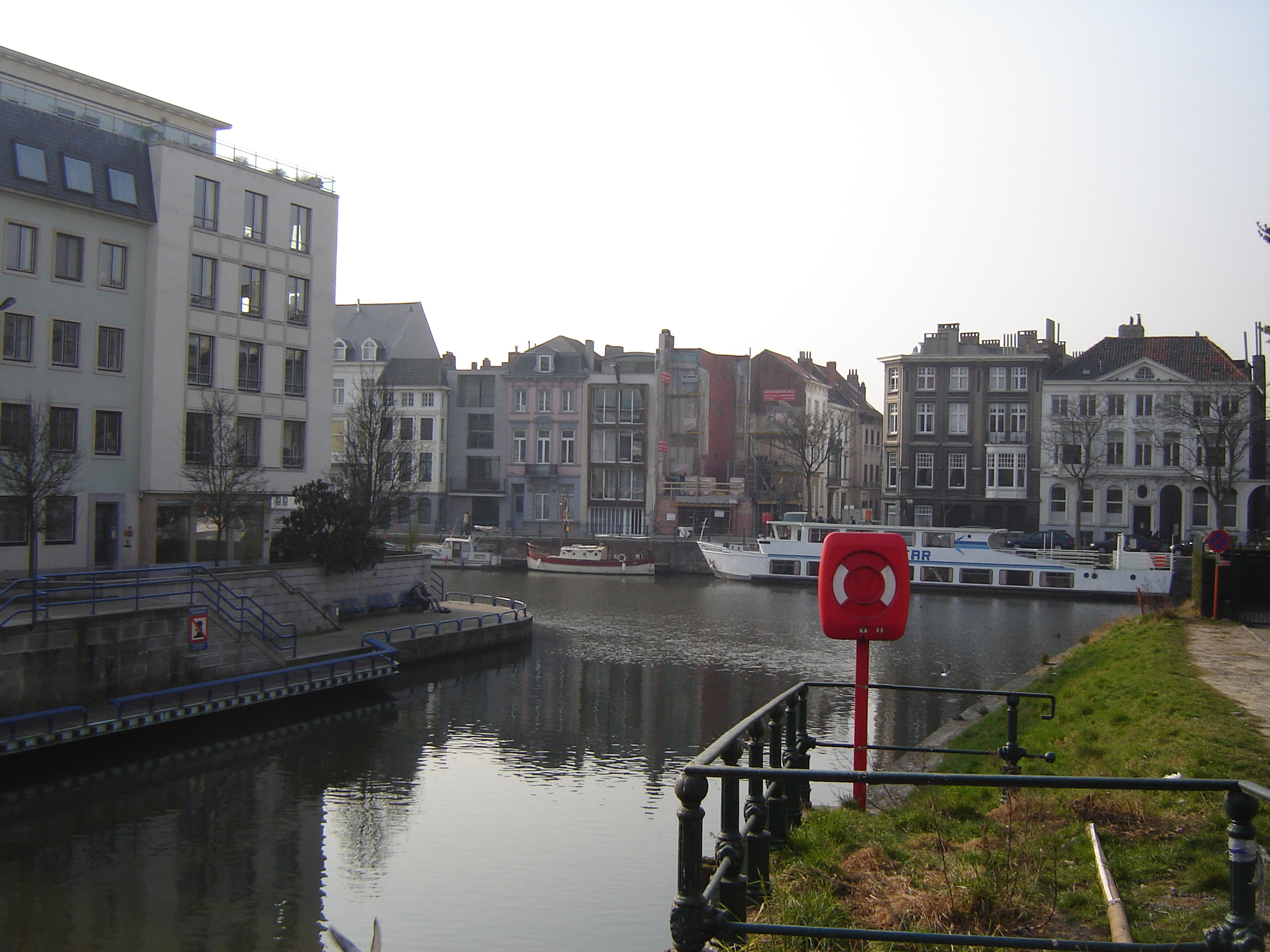 Ketelvest canal in Gent, junction with the river Leie (Lys). Gent, East Flanders, Belgium